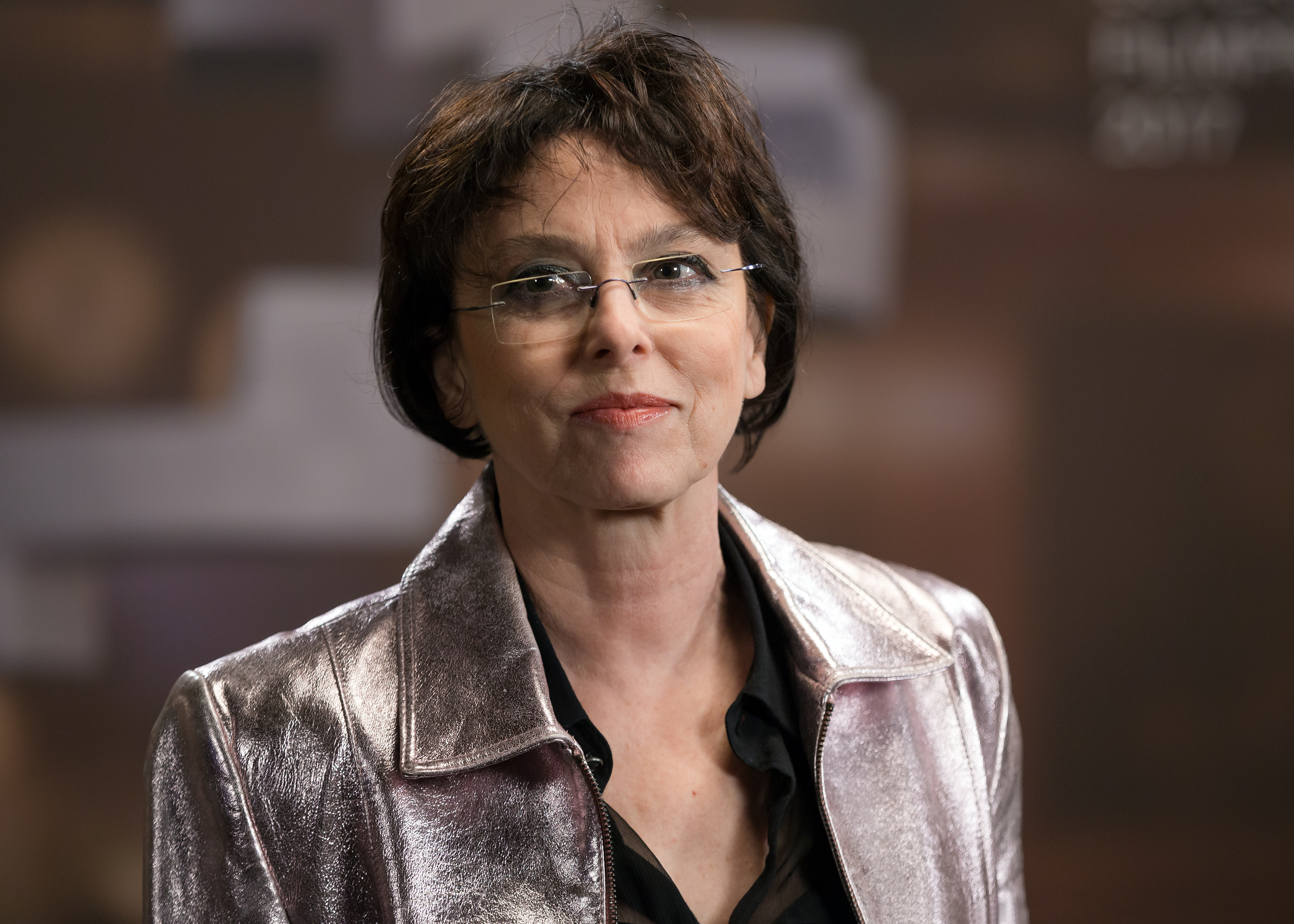 Karina Ressler, editor of Stille Reserven, at the Austrian Film Awards 2017 (Rathaus, Vienna,Austria).